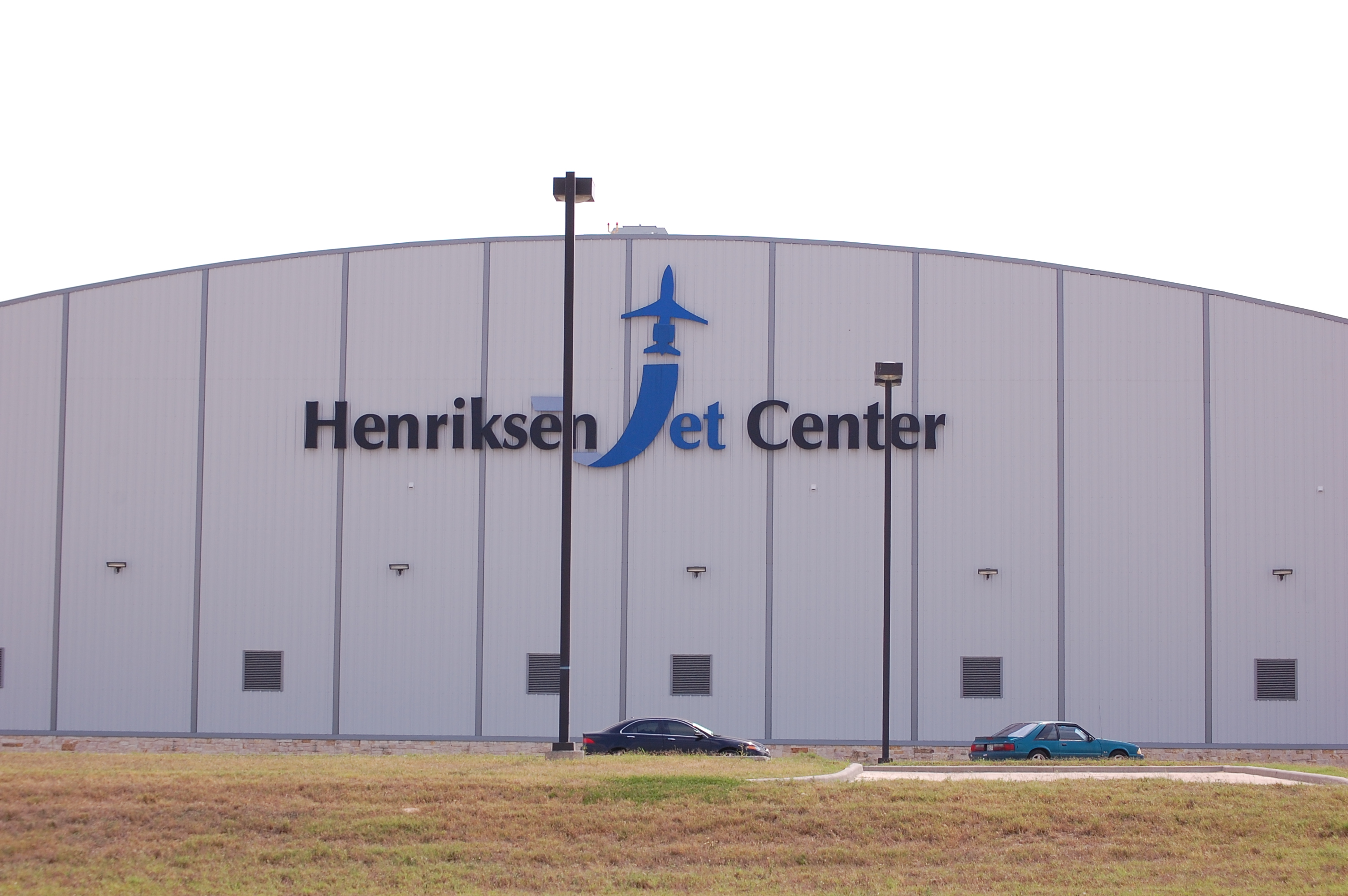 Buildings at the Houston Executive Airport (ICAO: KTME, FAA LID: TME, formerly 78T)